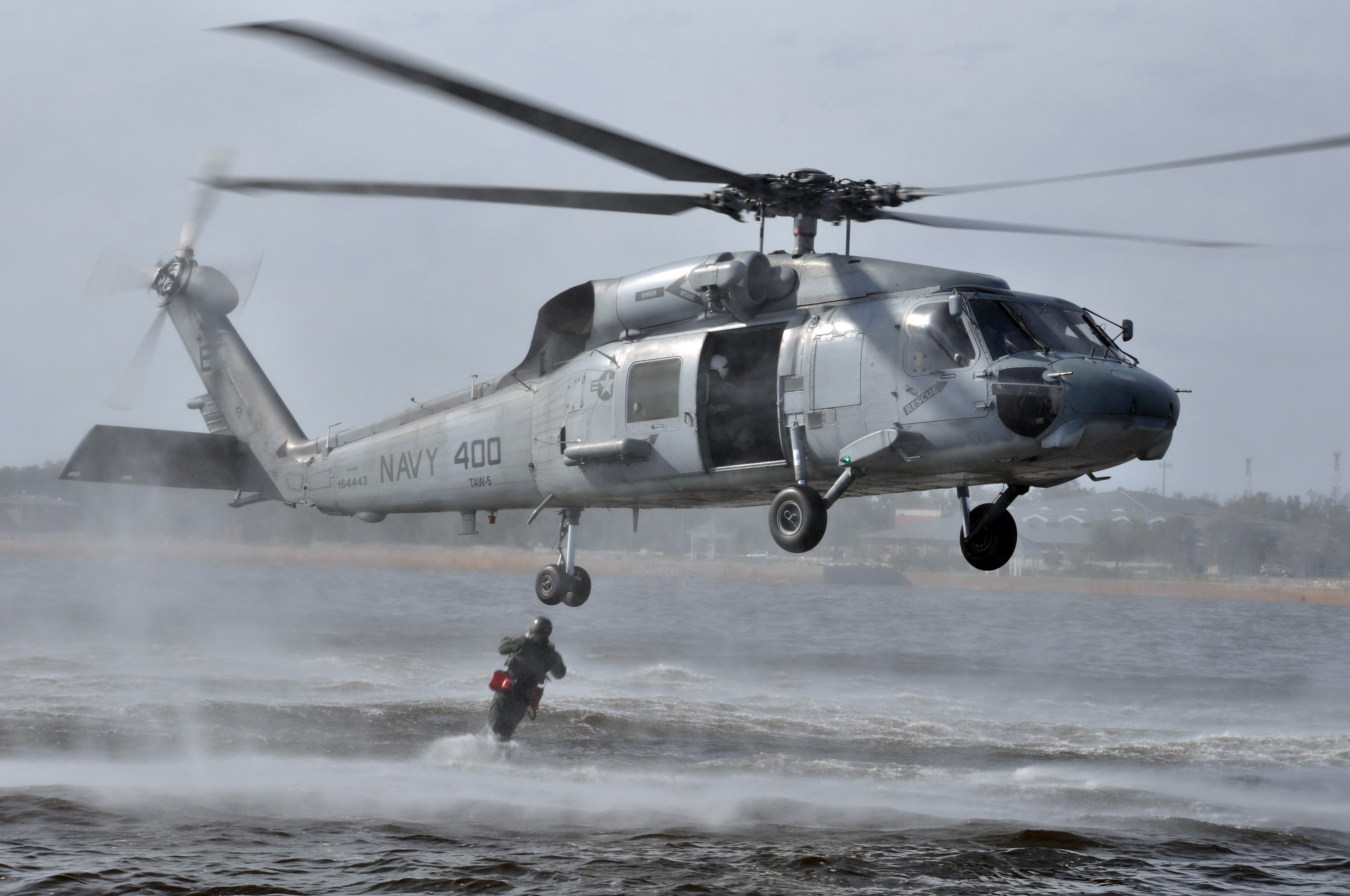 PENSACOLA, Fla. (March 30, 2009) A search and rescue swimmer jumps from an SH-60F Sea Hawk helicopter assigned to Training Air Wing (TRAWING) 5 at Naval Air Station Whiting Field in Milton, Fla. (U.S. Navy photo by Air Crewman 2nd Class Darien Durr/Released)